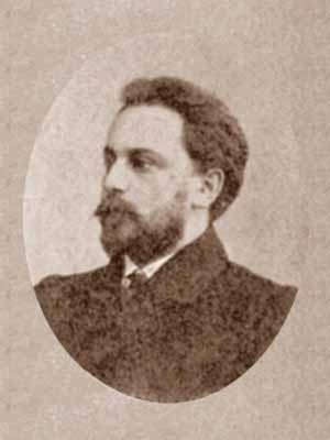 Genkel Aleksandr Germanovich(1872-1927), Russian biologist